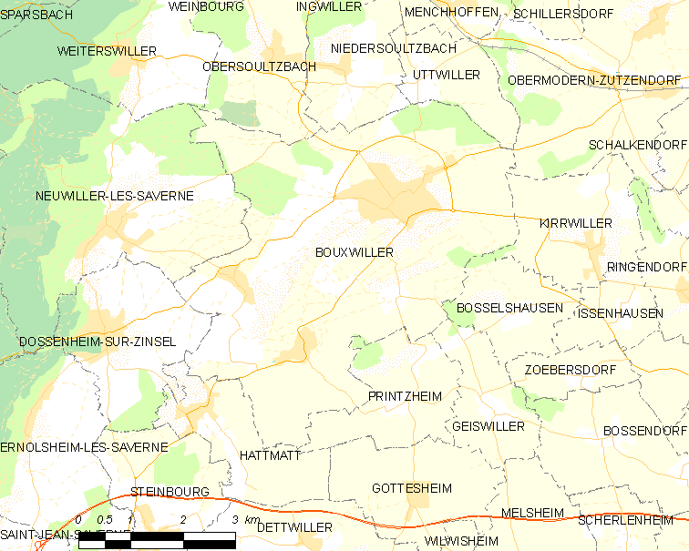 Map of French municipality